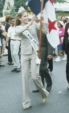 Justine Pasek at the front of a parade on November 3, 2003.